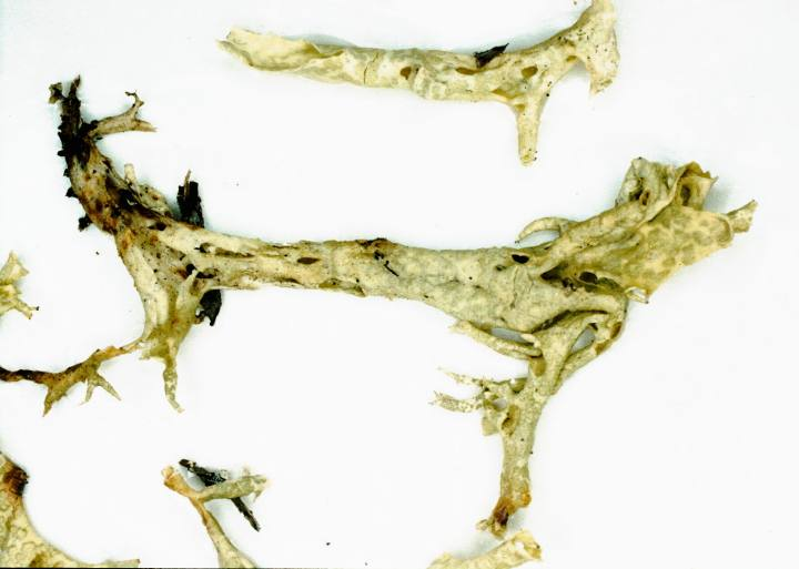 Cladonia caroliniana (Schwein.) Tuck. Photograph of a herbarium specimen. Note: The stereome of Cladonia caroliniana is composed of broad, flat, cords that coalesce; while the stereome of Cladonia boryi is composed of fibrous stands. C. caroliniana was growing on soil along Kelley Point Road in Jonesport, Washington County, Maine, USA (Lat. 44o31.9' N, Long. 67o34.5' W); collected and identified by E.C. Uebel (No. U-218, 14 Jun 2001).